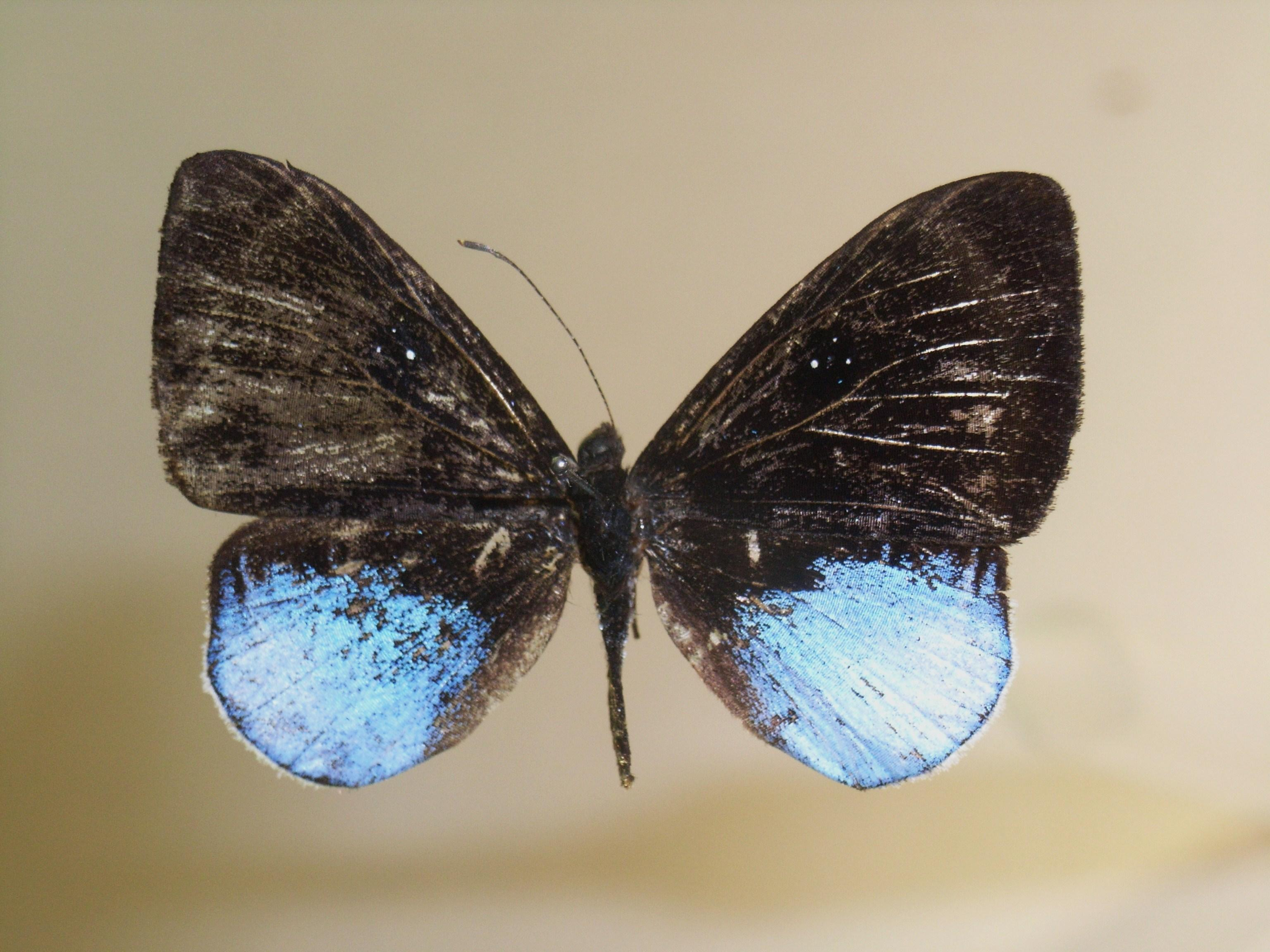 Mesosemia zanoa: Riodinidae